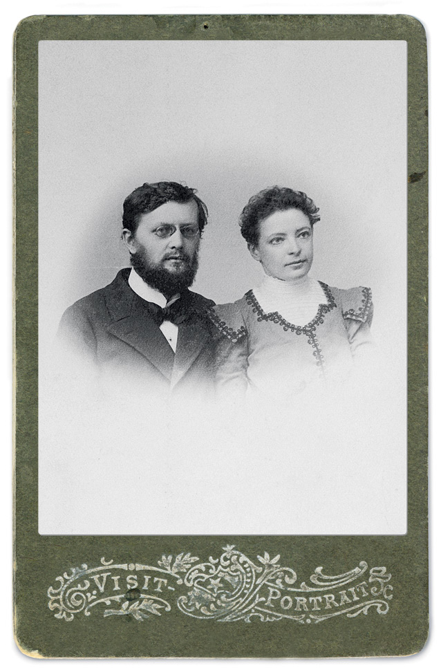 Fritz Brubpacher and Lidya Kochetkova, revolutionaries, doctors, one time husband and wife